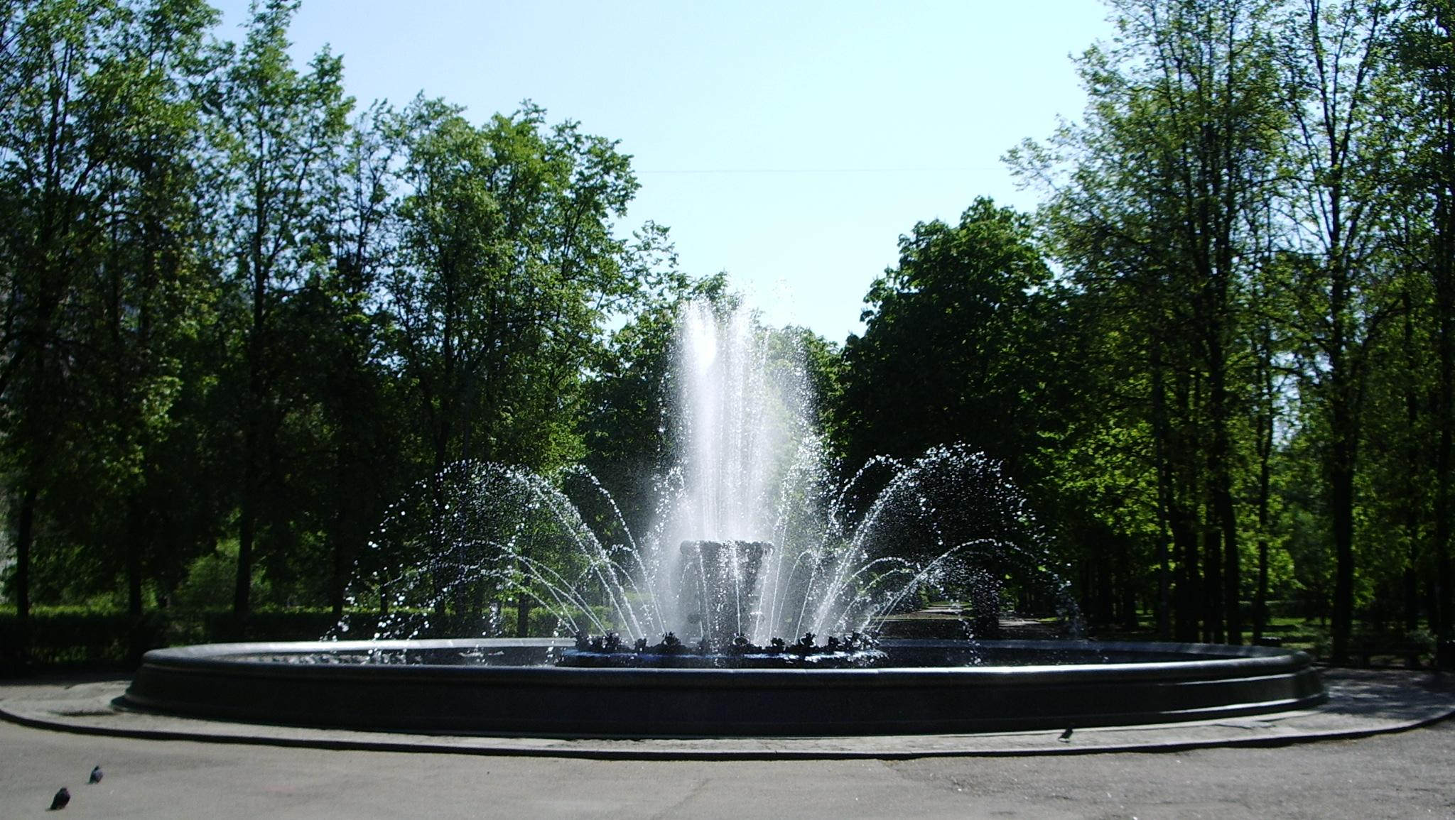 Fountain at the 2-nd Peschanaya street in Moscow